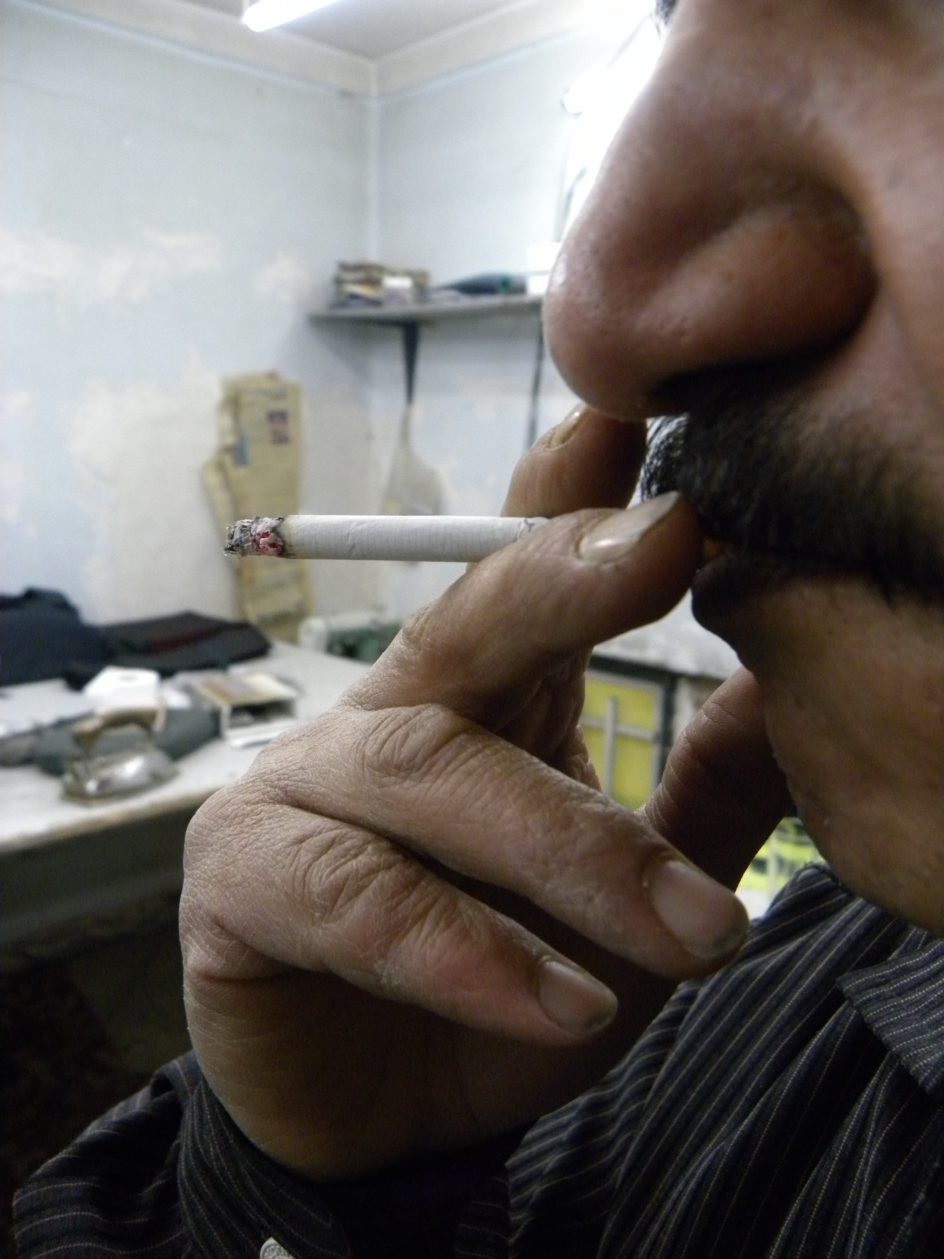 Tailor man Smoking 2